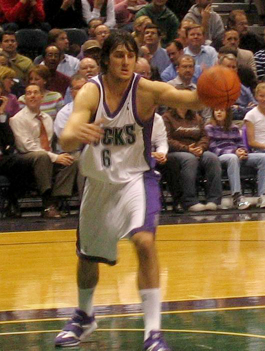 Andrew Bogut going for a rebound.